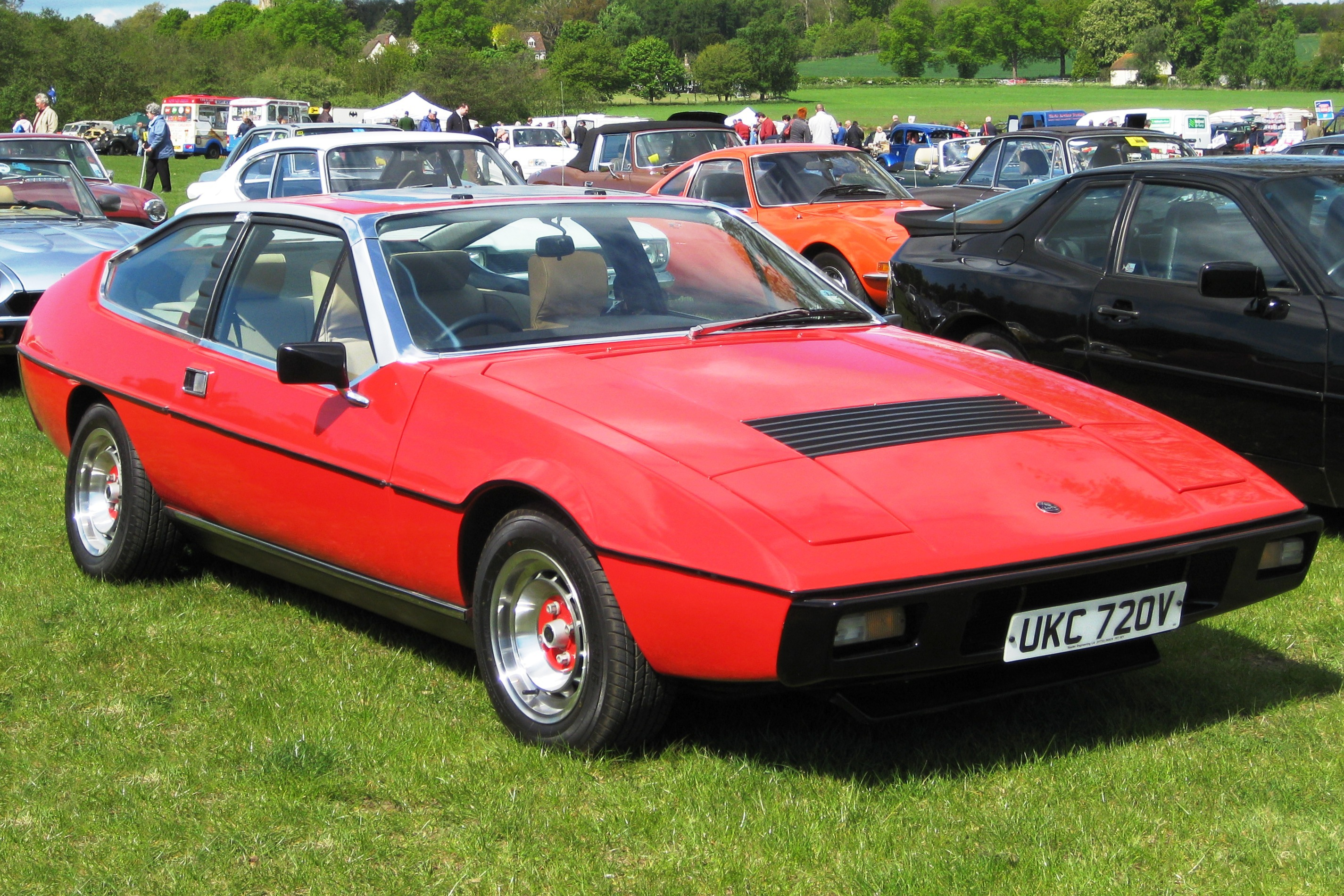 Lotus Eclat near Biggleswade